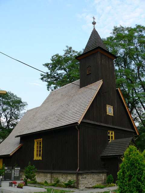 Description: Saint Nicholas Church in Nýdek (Nydek), Czech Republic. Date: 24 July, 2006 Camera: Panasonic DMC-FZ20 Author: Czesil